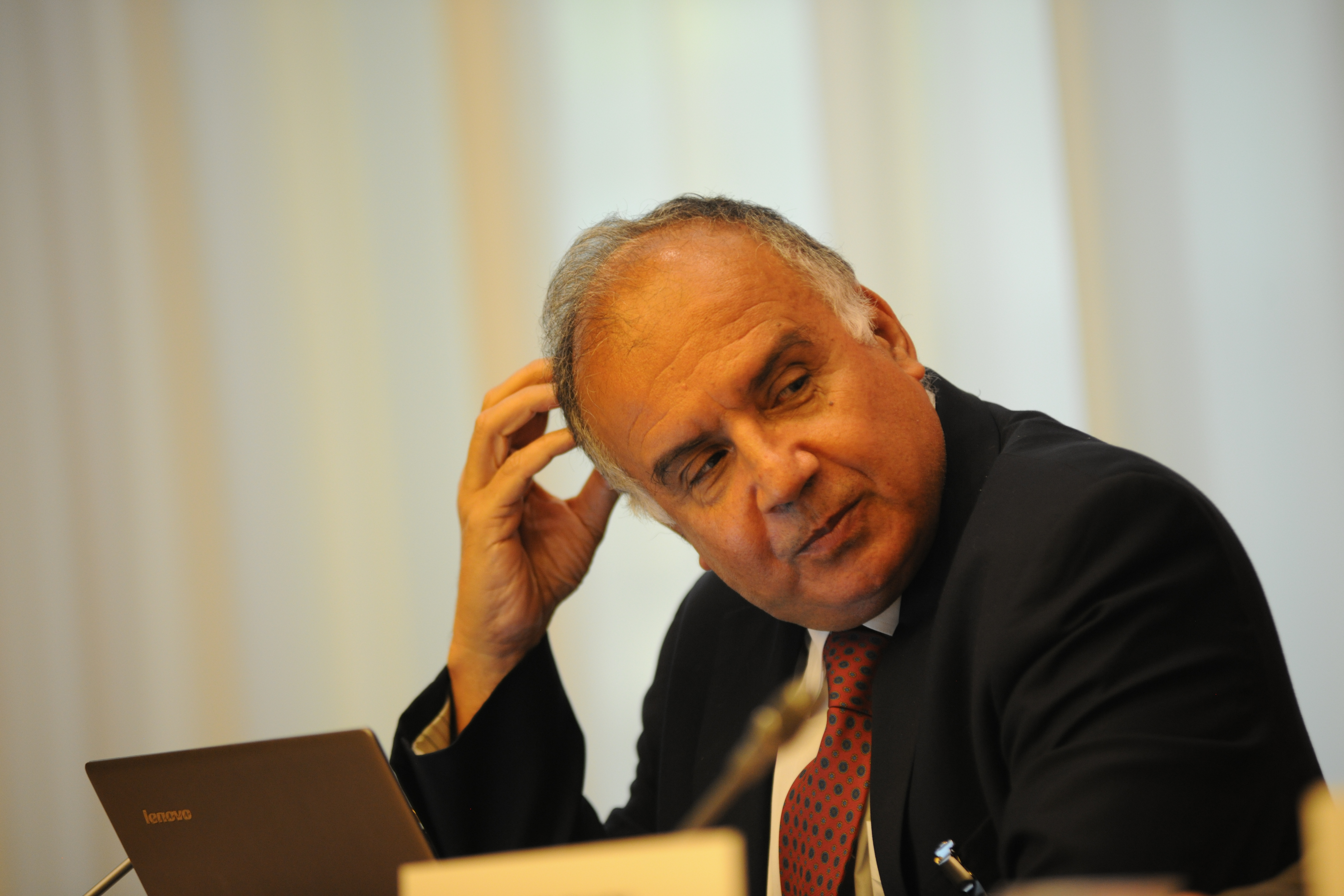 Photos from the WTO Public Forum 2015 — “Trade works” photo gallery may be reproduced provided attribution is given to the WTO and the WTO is informed. Photos: © WTO/Studio Casagrande